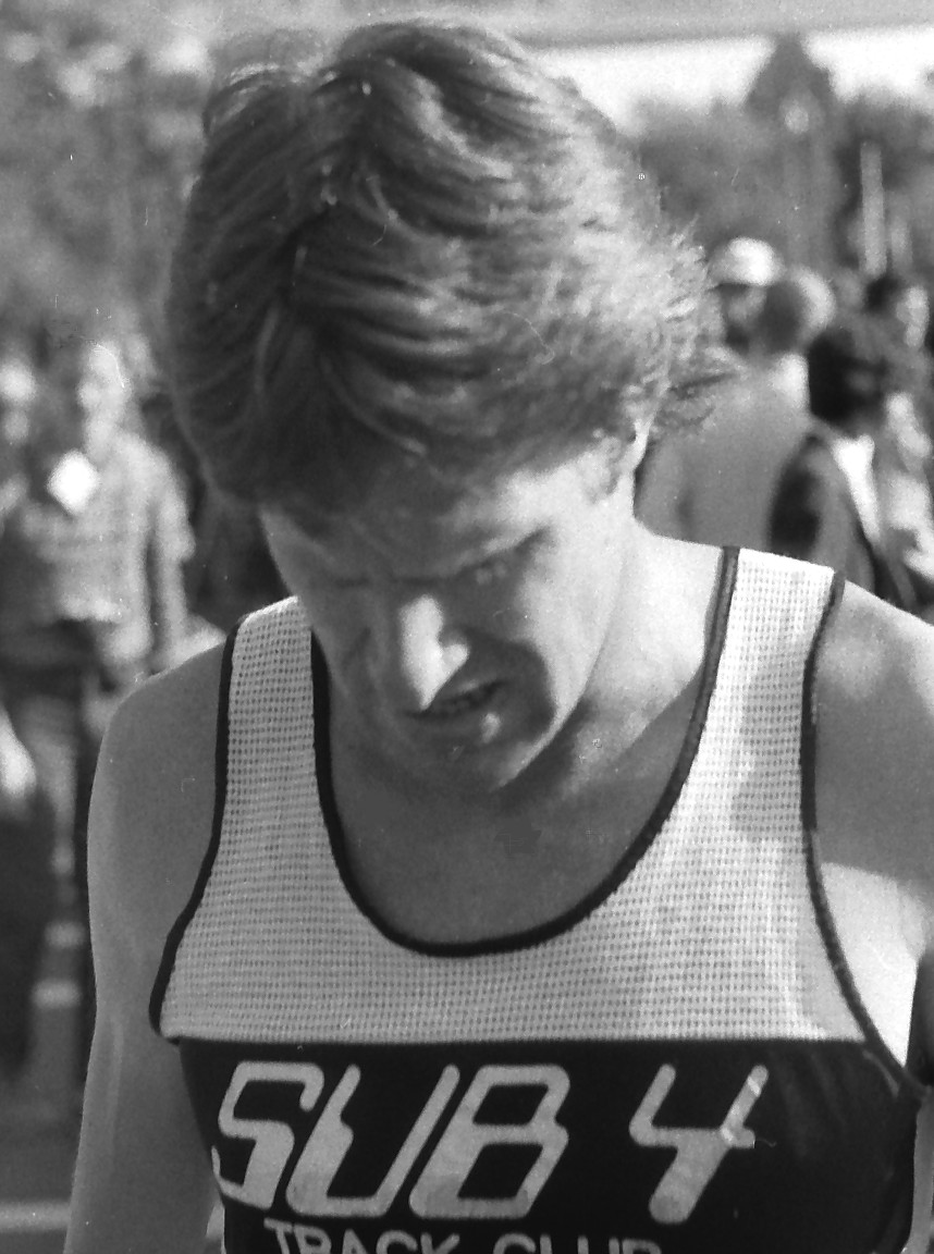 John Walker, runner, after completing mile race around Queen's Park, Toronto